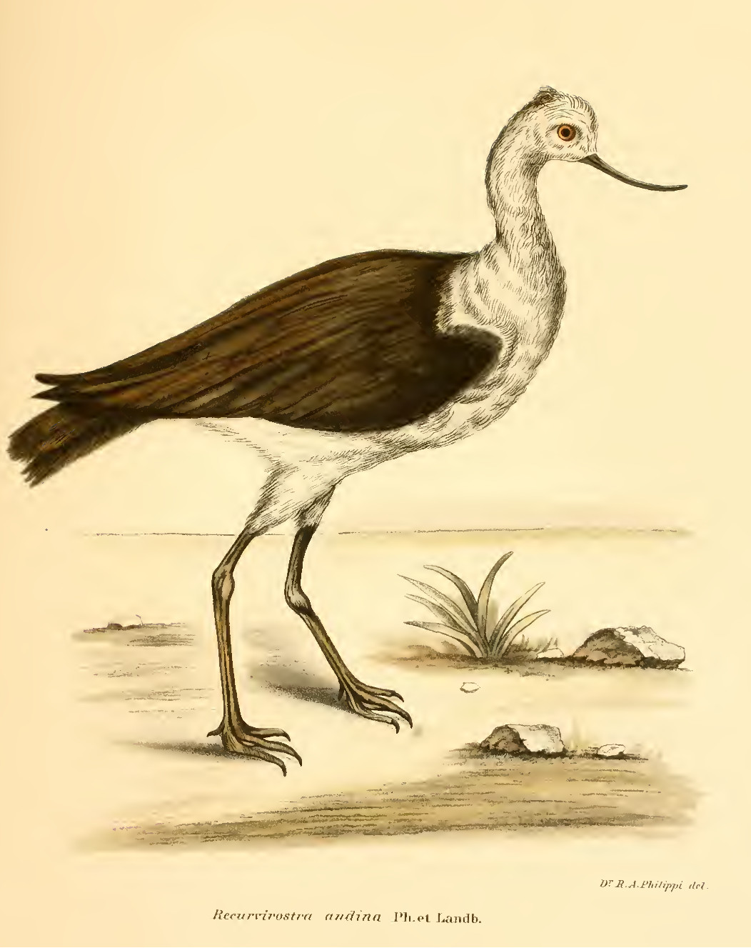 Illustration of Recurvirostra andina Ph et Landb in Figuras i descripciones de aves chilenas, Anales del Museo Nacional de Chile, 1902